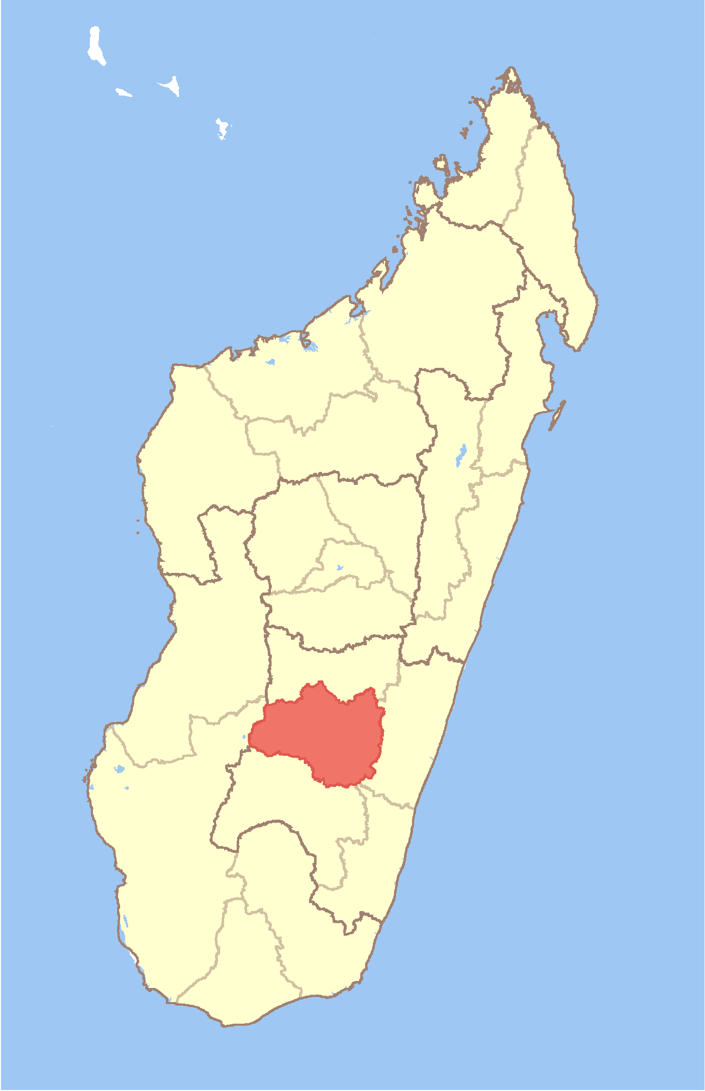 Map of Madagascar with Haute Matsiatra Region highlighted